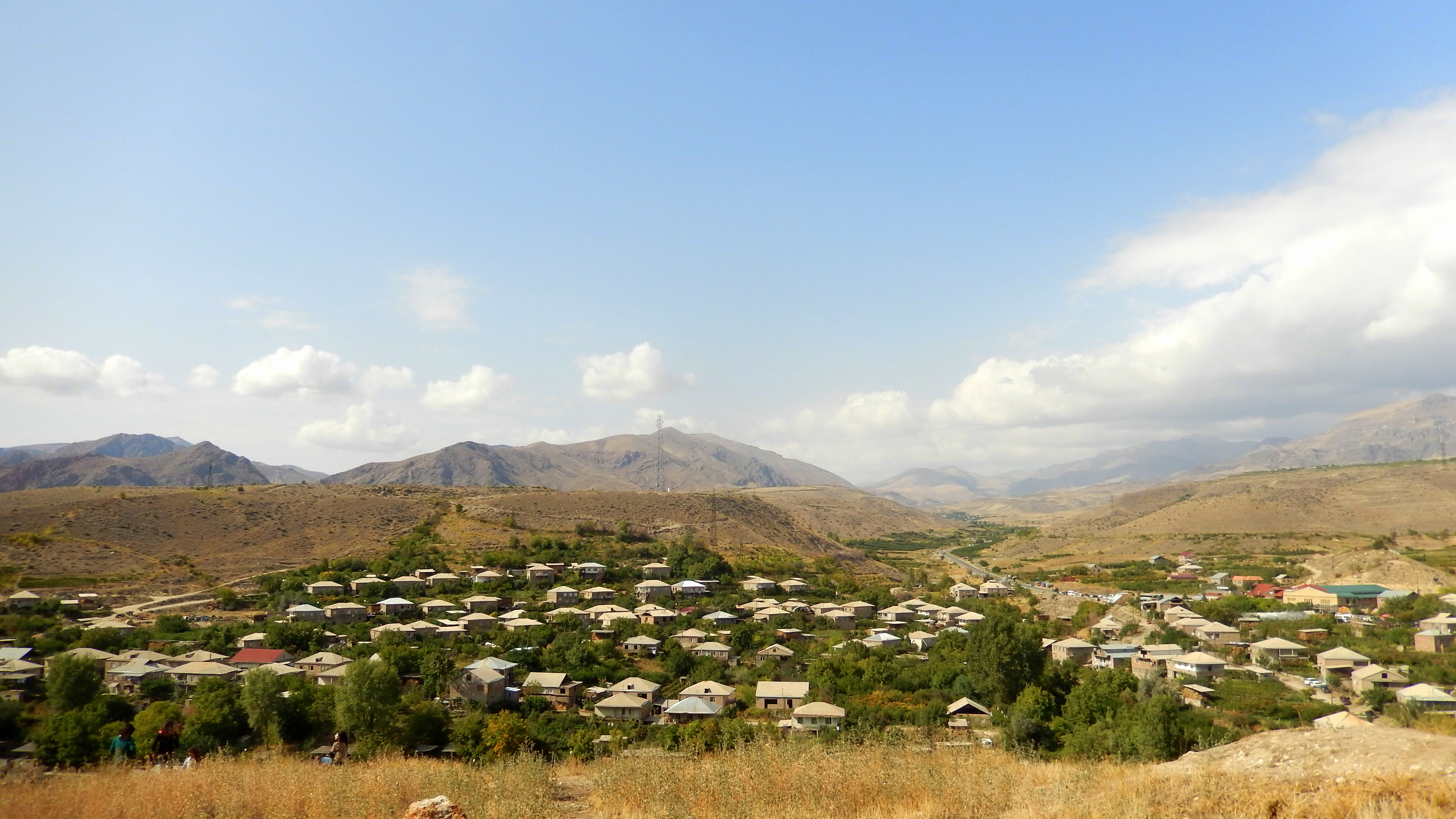 Արենի